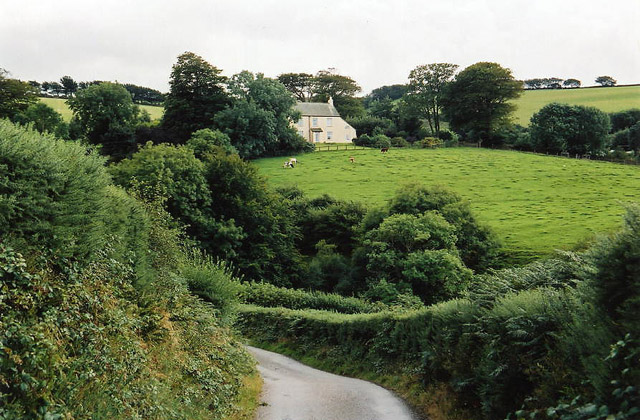 Brendon: towards Cranscombe Farm, Scob Hill. Seen from Gratton Lane, a minor road linking Malmsmead with Crookhorn Gate. Shot taken on the cusp with SS7647